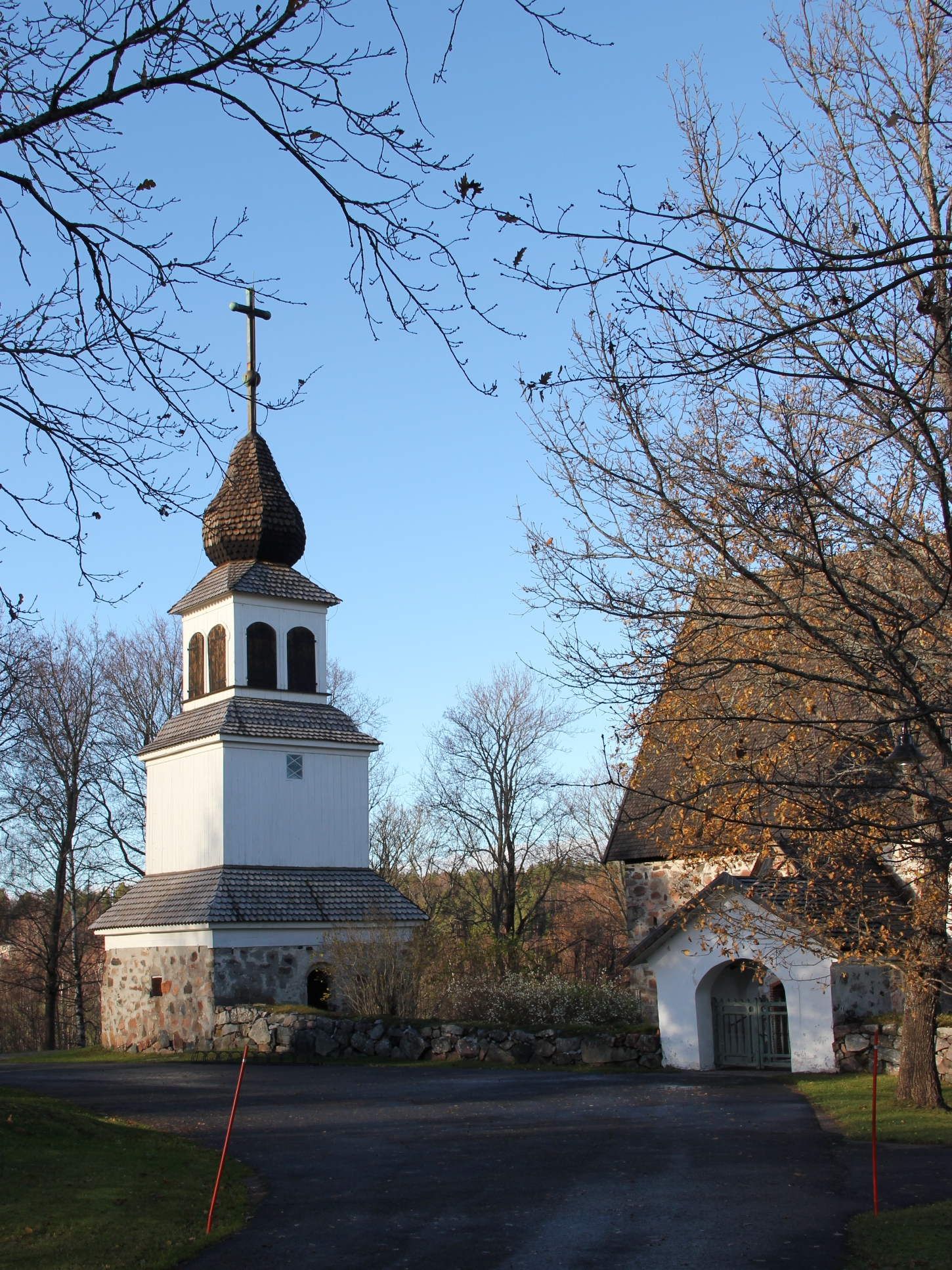 Front gate and belltower, Karis Medieval Church, Finland, Church of St Catherine